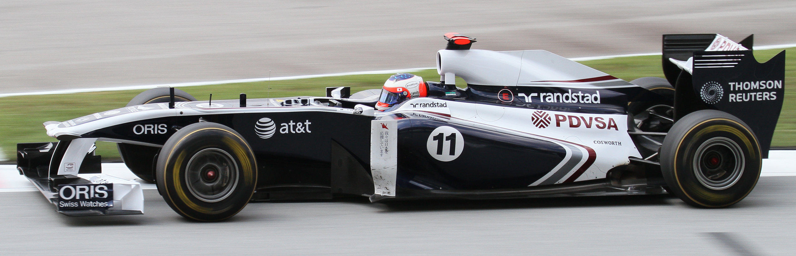 Formula One 2011 Rd.2 Malaysian GP: Rubens Barrichello (Williams) during the second practice session on Friday.